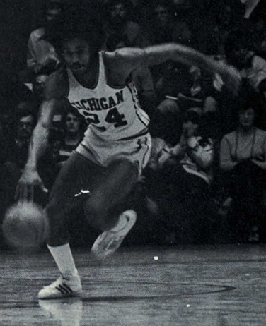 Photograph Ricky Green